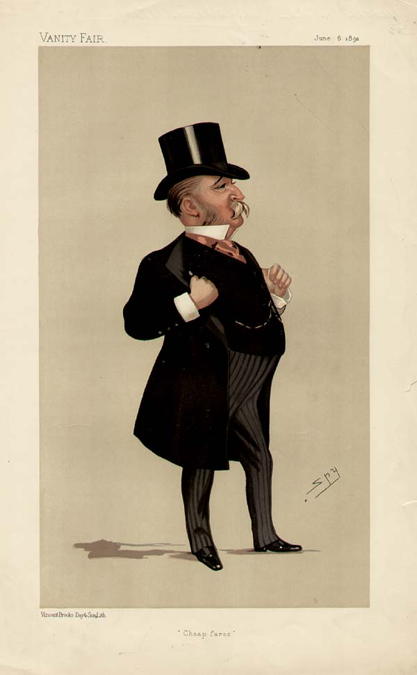 Statesmen No.578: Caricature of Mr John Blundell Maple MP. Caption reads: "Cheap fares"